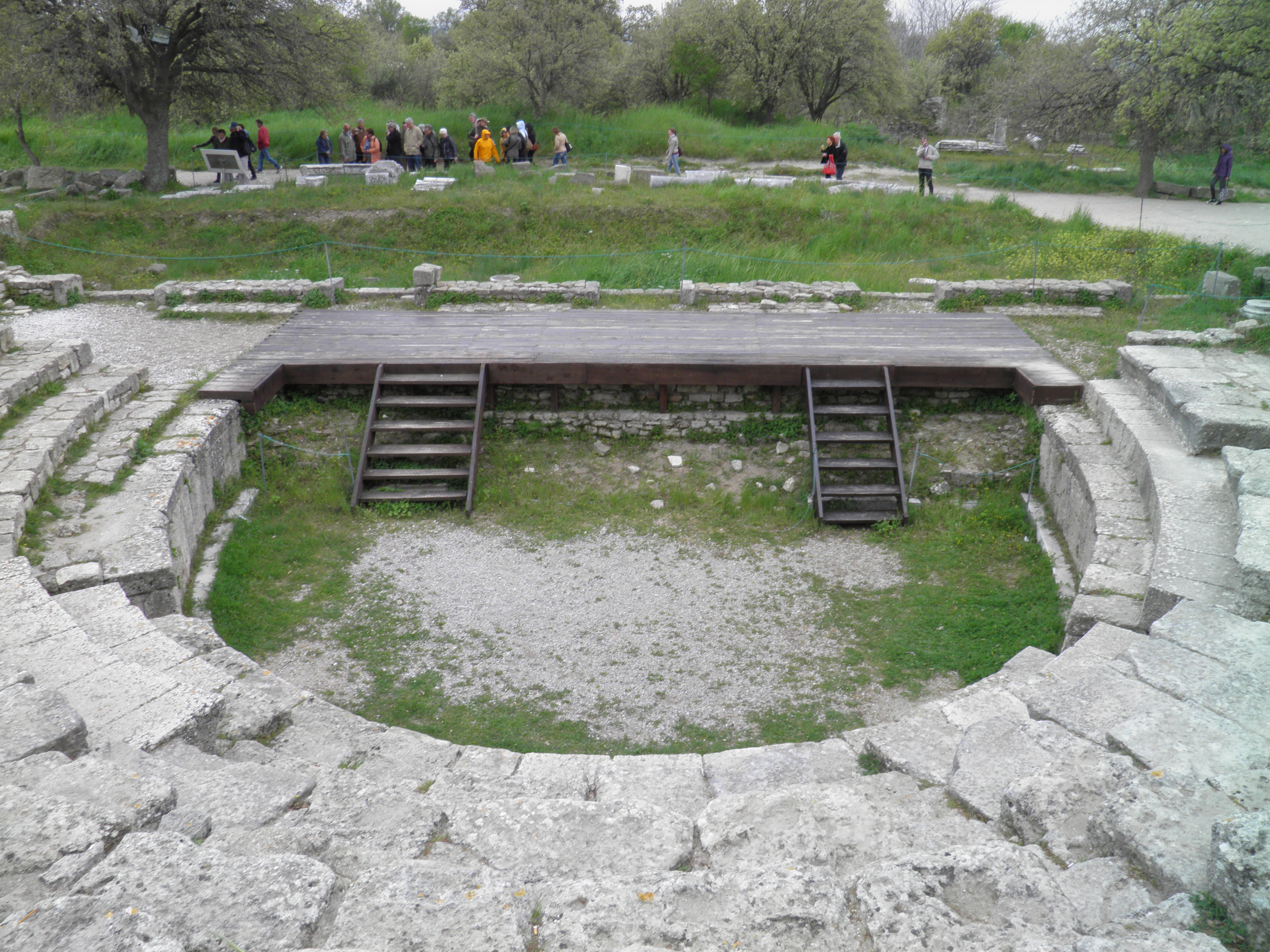 Troy (Ilion), Turkey